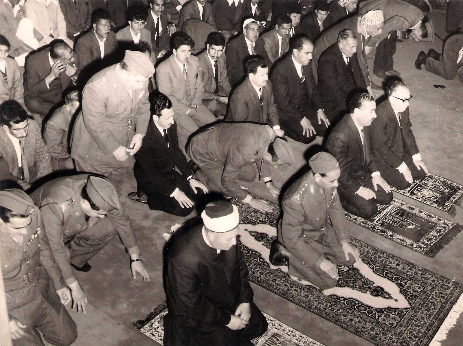 Iraqi President Abdul Salam Aref prays Eid prayer when he opens the Al Samarrai mosque in Baghdad 1964